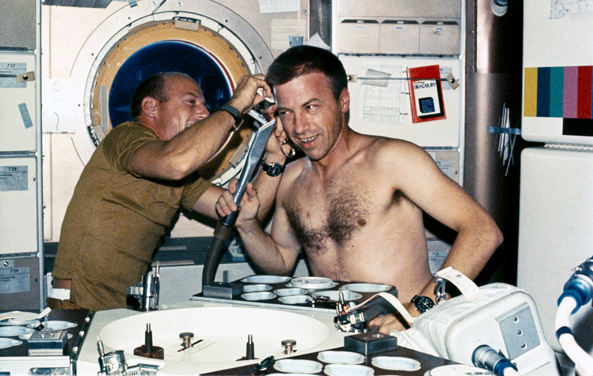 NASA astronaut Charles "Pete" Conrad, commander of Skylab 2, trims the hair of Skylab 2 pilot Paul J. Weitz during the 28-day Skylab 2 mission in Earth orbit. Conrad and Weitz are in the crew quarters of the Skylab Orbital Workshop. Weitz is holding a vacuum hose in his right hand. The photo was taken by Skylab 2 science pilot Joseph P. Kerwin. NASA photo SL2-09-755 in public domain.